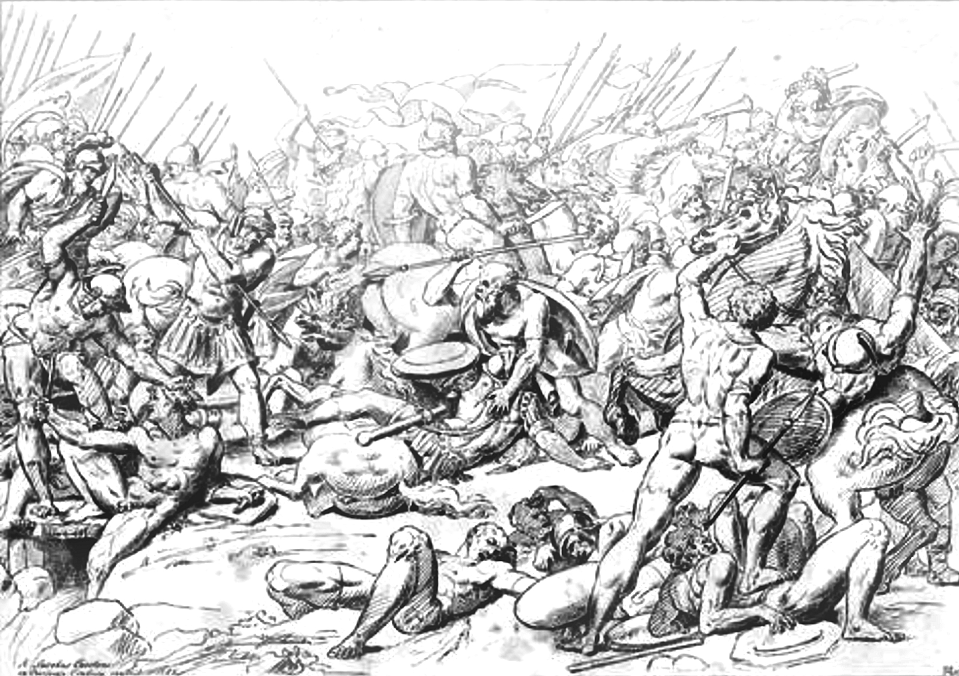 Battle of Potidaea. Athenians against Corinthians, 431 BCE; Socrates saves Alcibiades